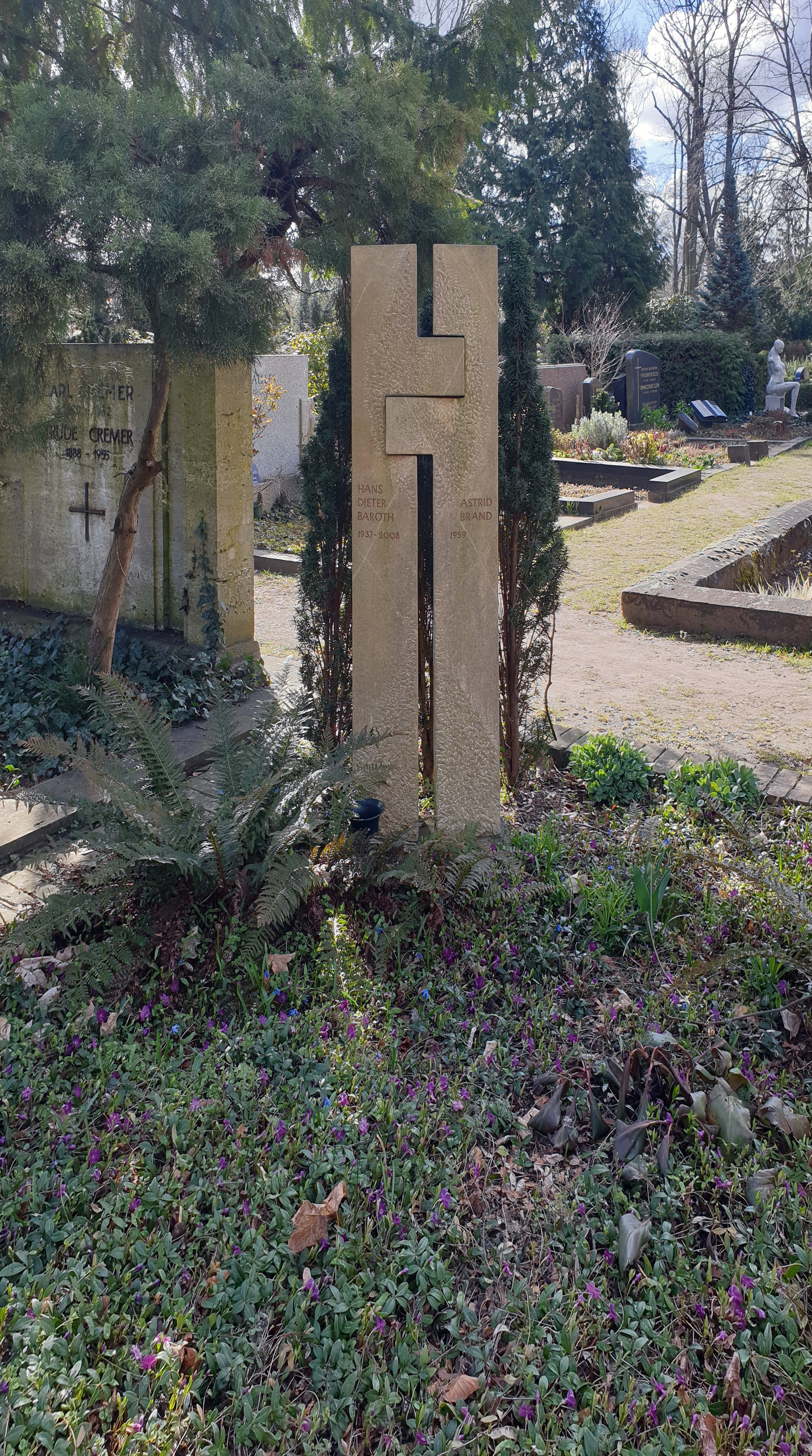 Grave, Hans Dieter Baroth, Aßmannstraße 12, Berlin-Friedrichshagen, Germany